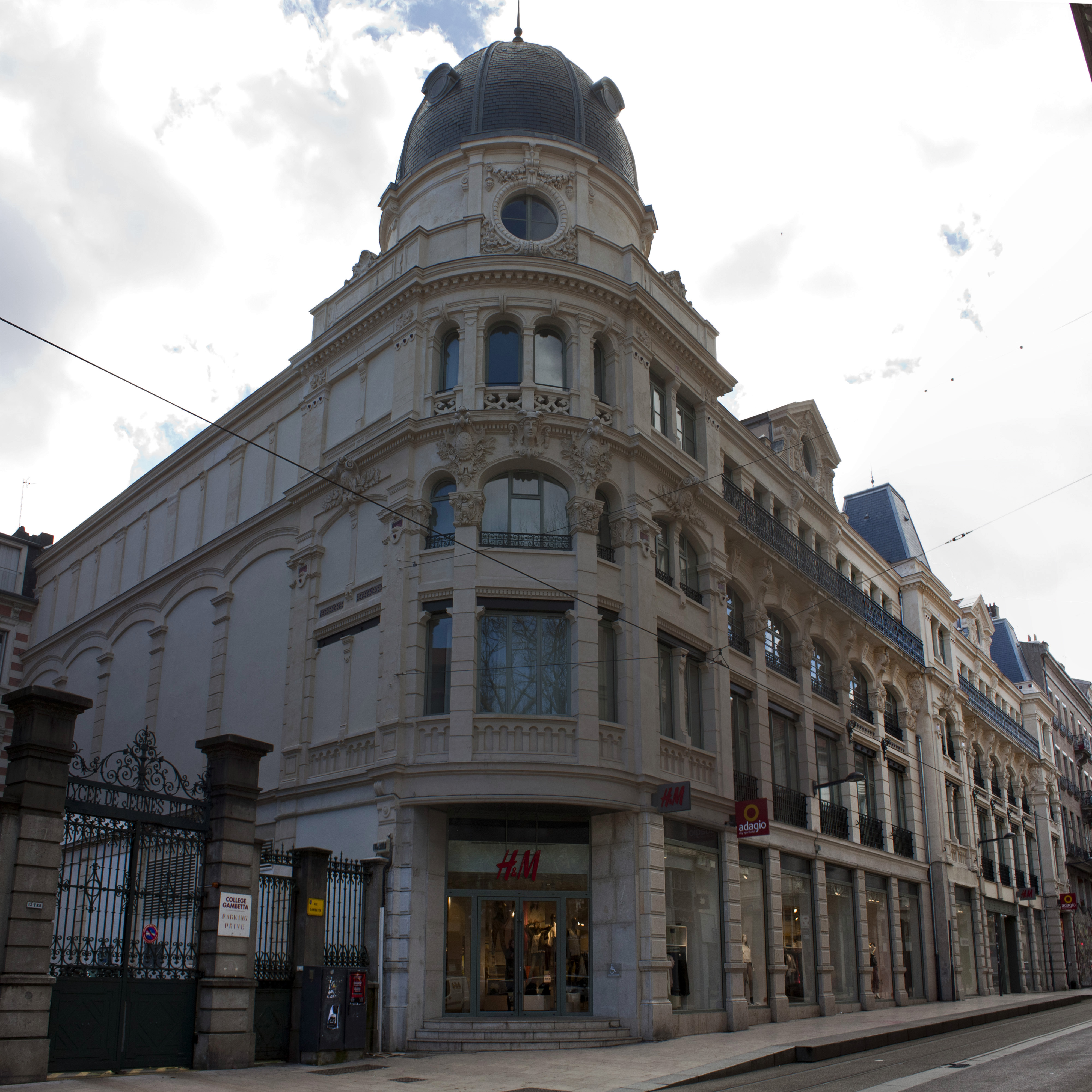 The building Demogé named “Nouvelles Galeries” it has long housed before switching of store name.